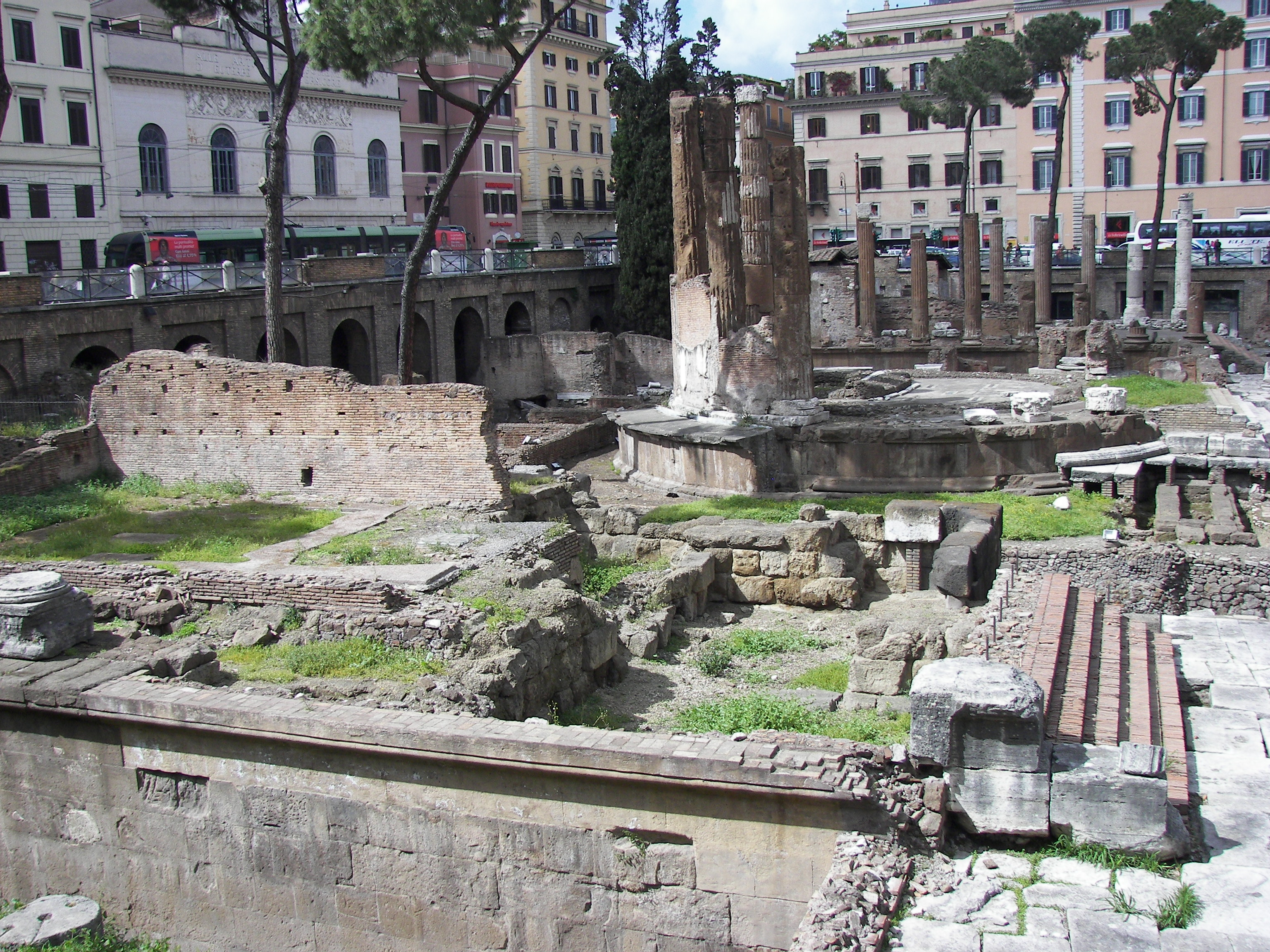 Largo di Torre Argentina in Rome. Temple A is in the distant right, Temple B is in the nearer center-right, and Temple C is in the front-left.